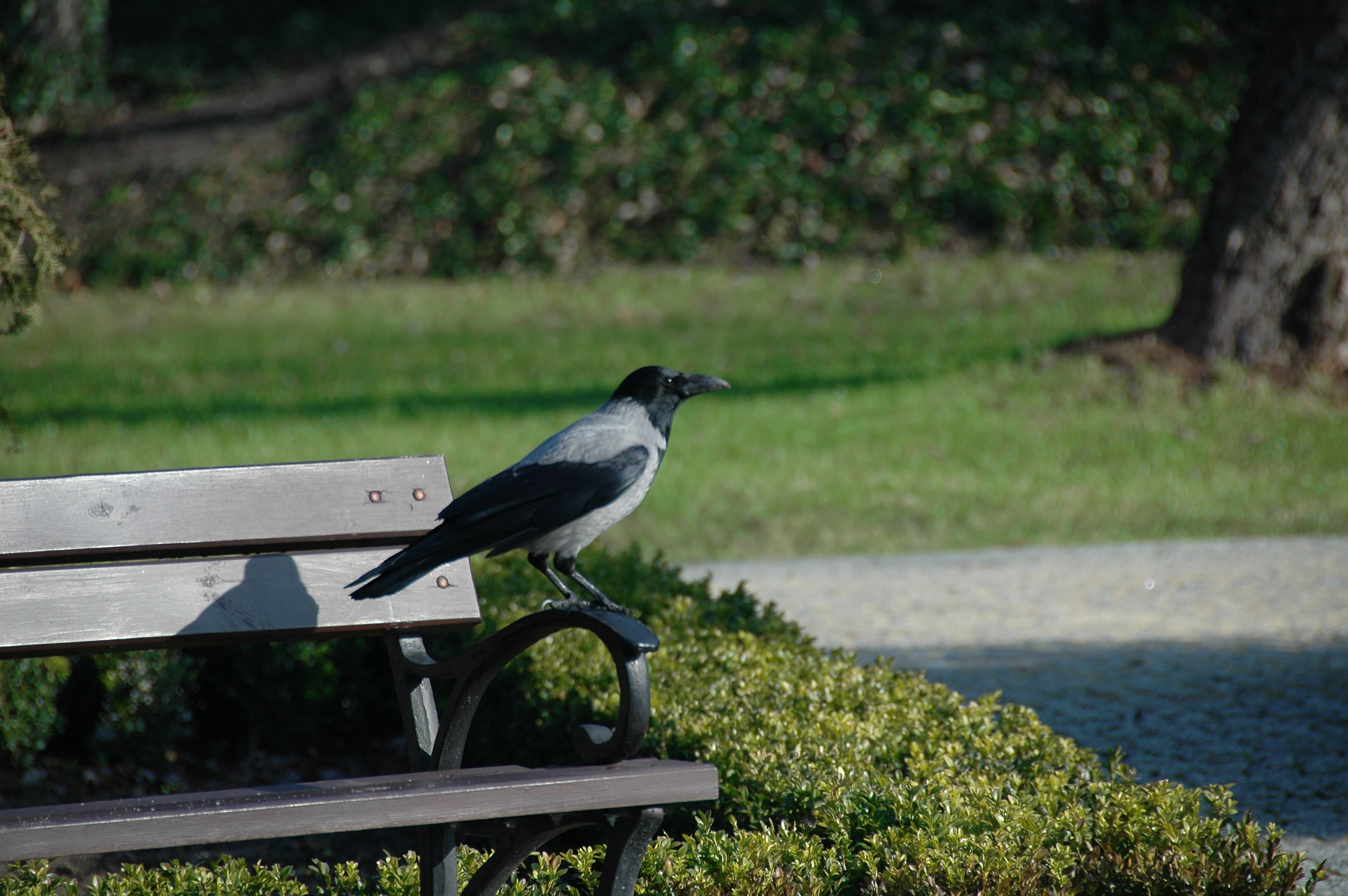 Hooded crow in Poland.